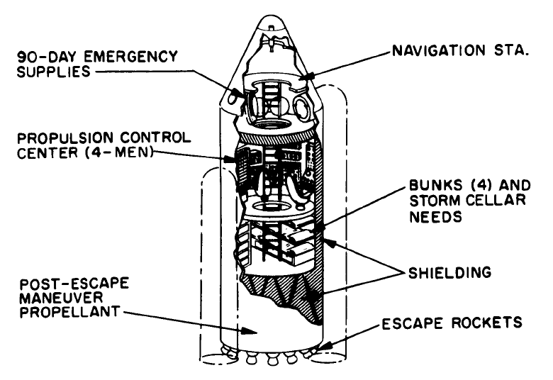 Project-Orion powered flight station and escape vehicle for 8-man exploration missions with 10-m configurations.